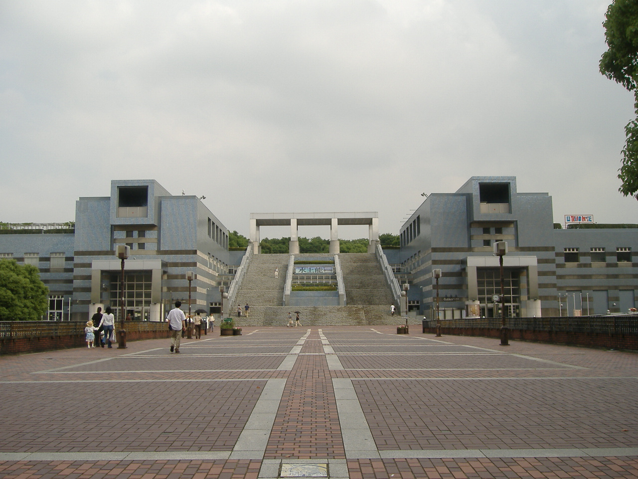 Concert Hall "Parthenon-Tama" (Tokyo, Japan)